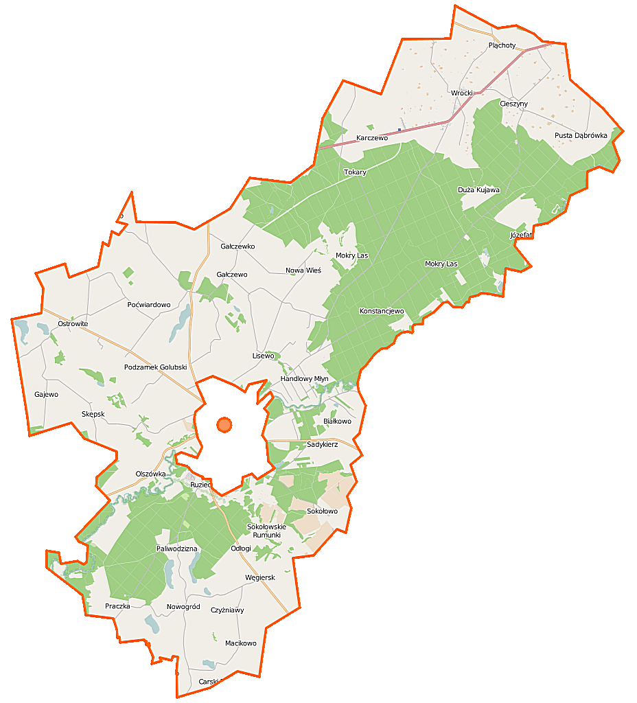 Map of Gmina Golub-Dobrzyń, Poland This map of Golub-Dobrzyń (gmina wiejska) was created from OpenStreetMap project data, collected by the community. This map may be incomplete, and may contain errors. Don't rely solely on it for navigation. Border coordinates53.241218.9421←↕→19.260453.0303